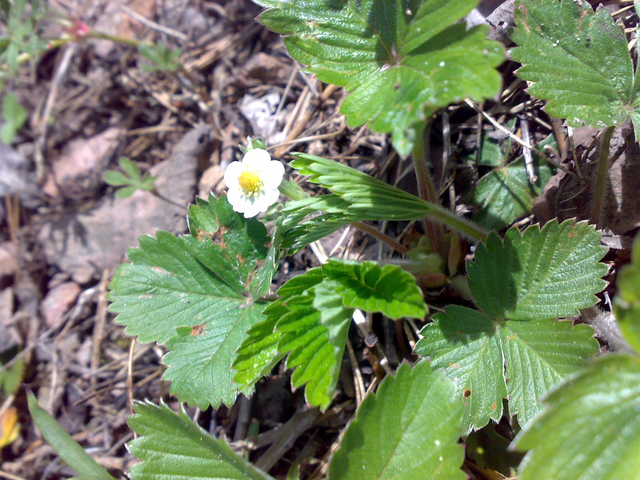 Fragaria vesca in early May, Norway